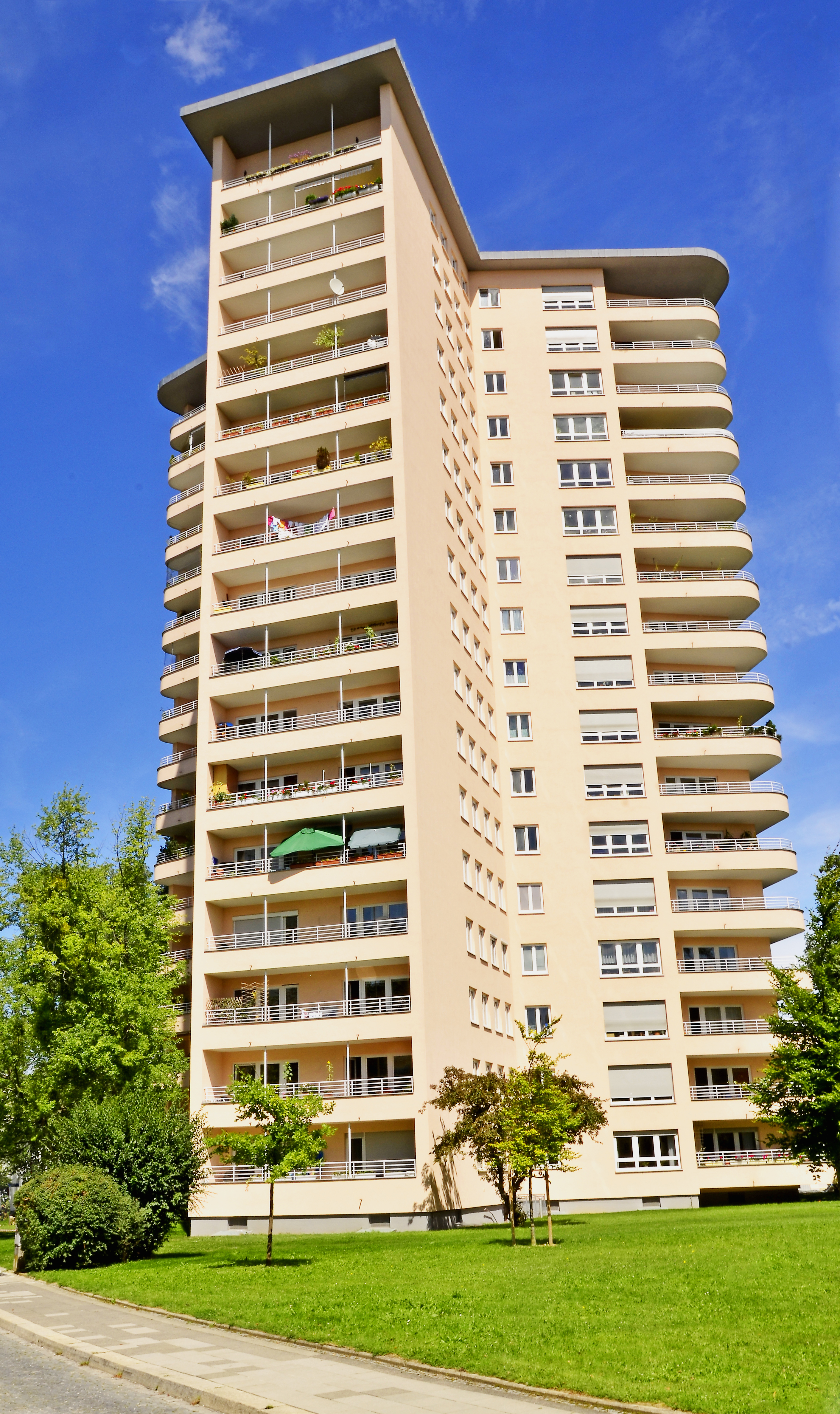 Siemens Buildings in Munich, Sternhaus, Schuckertstraße 14